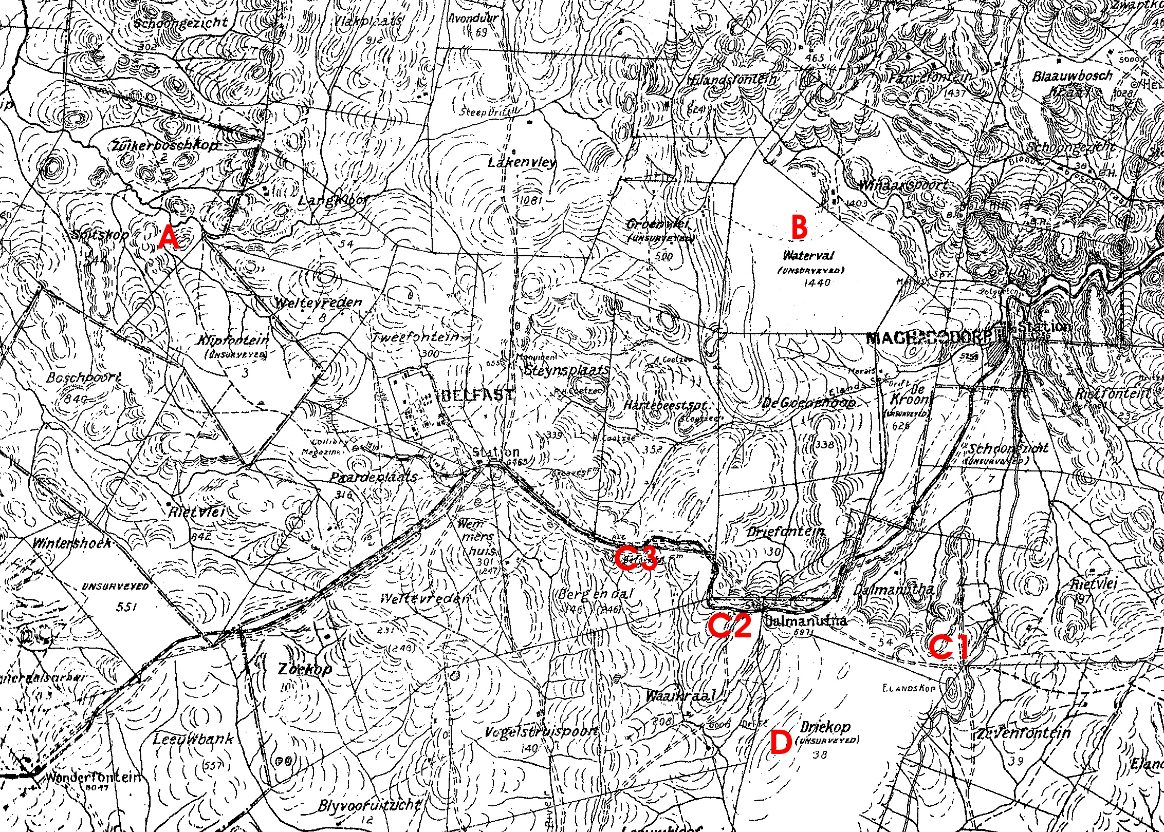 The map shows the location of Long Tom guns during the Battle of Bergendal during August 1900.